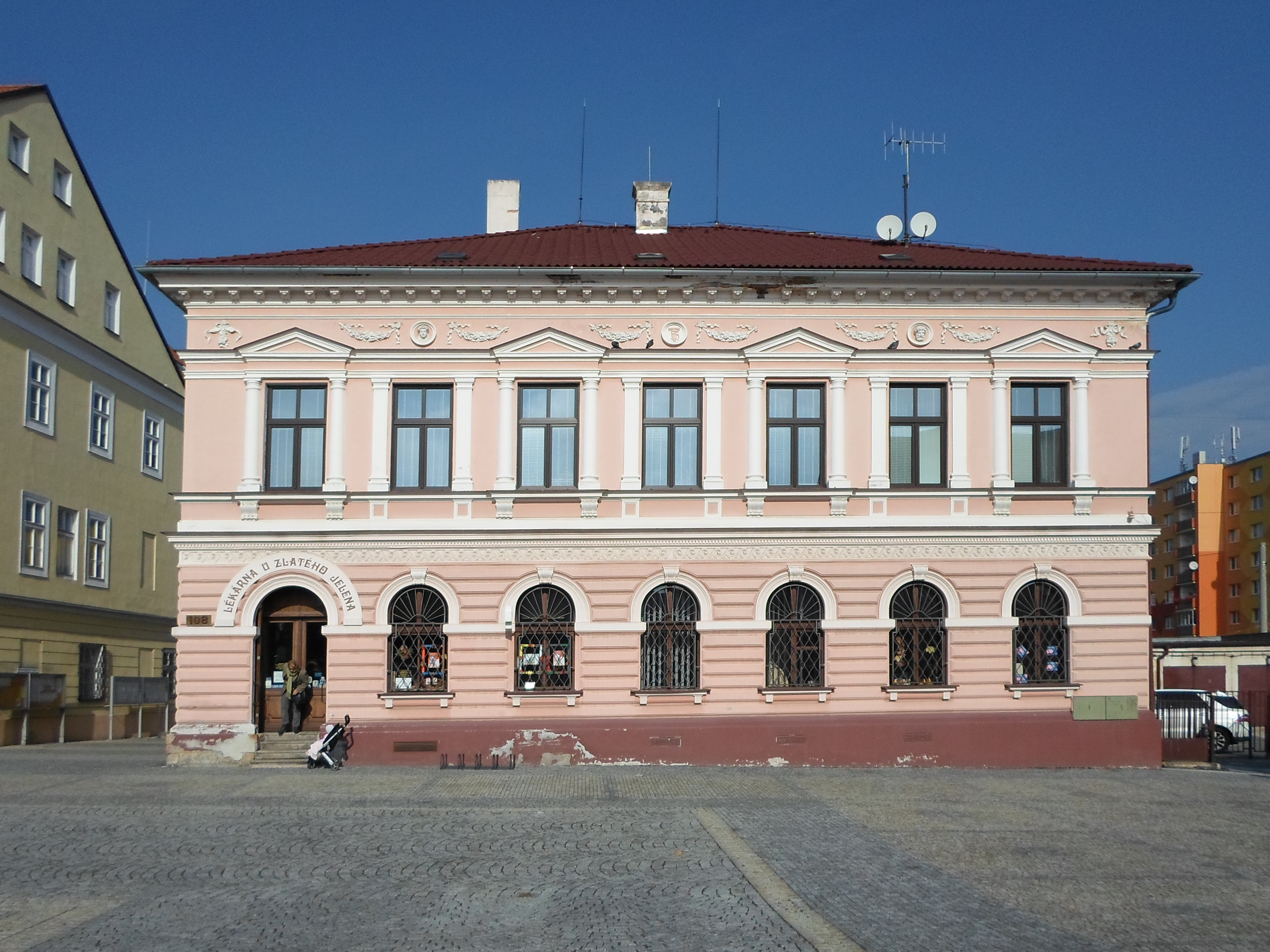 Pharmacy Building (1883)